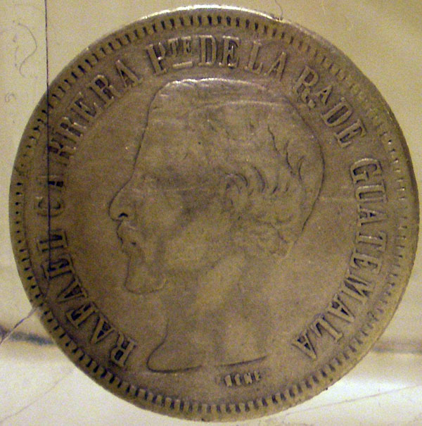 2 Reales bearing portrait of Rafael Carrera - dated 1861